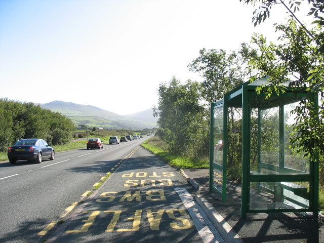 Bus Stop and Shelter on the A499 at Y Swan. This photograph was taken at 16.40 on a Friday afternoon in September. The main flow of traffic, commuter and weekender, is southwards.